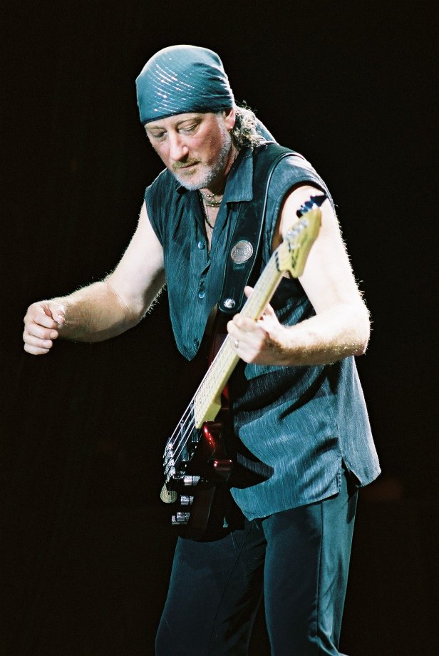 Roger Glover, Live at The Tags summer stage, Big Flats NY, USA, June 29 2002. Photo by Nick Soveiko